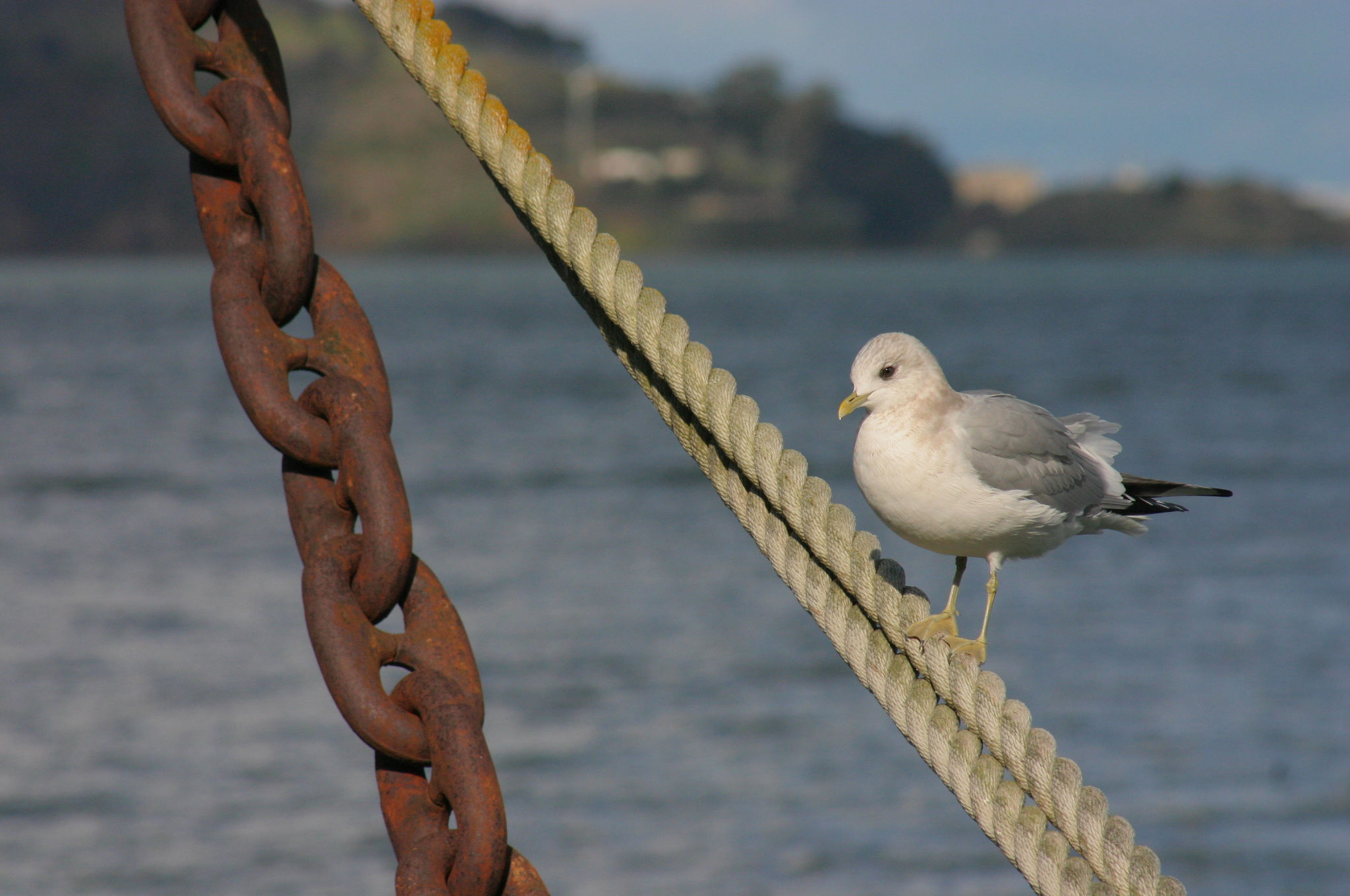 This photo shows a seagull's preference as to its landing and perching spot; at the pier for USS Pampanito in San Francisco, California, USA.